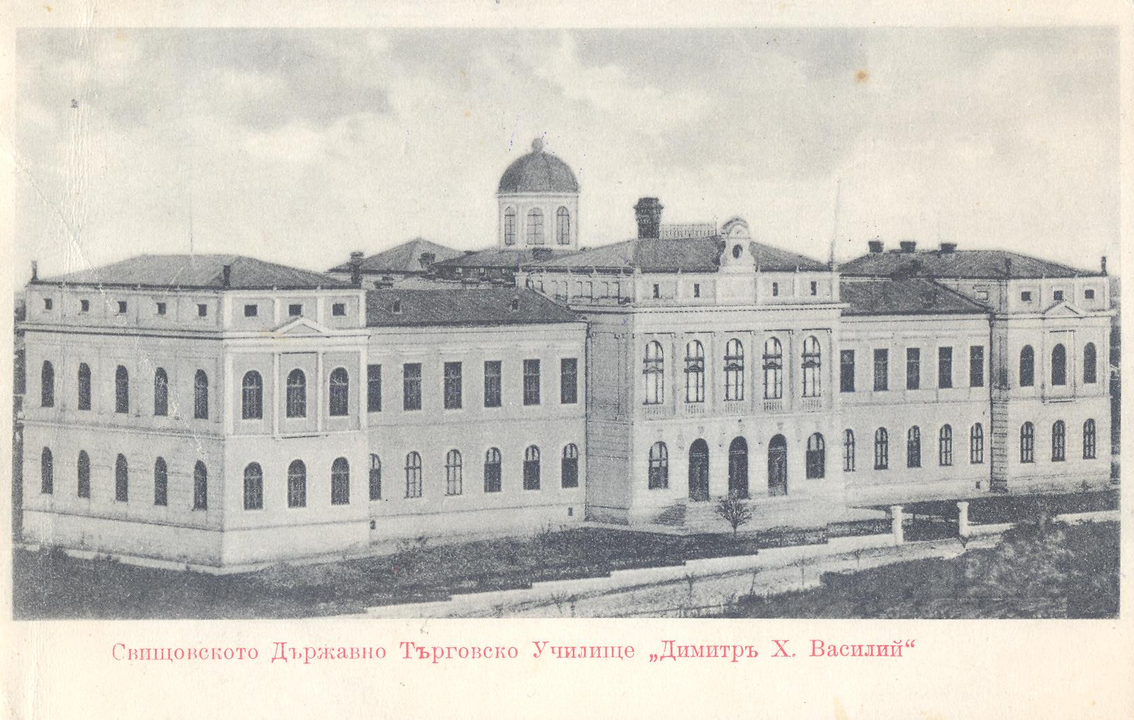 Postcard from Svishtov, Bulgaria